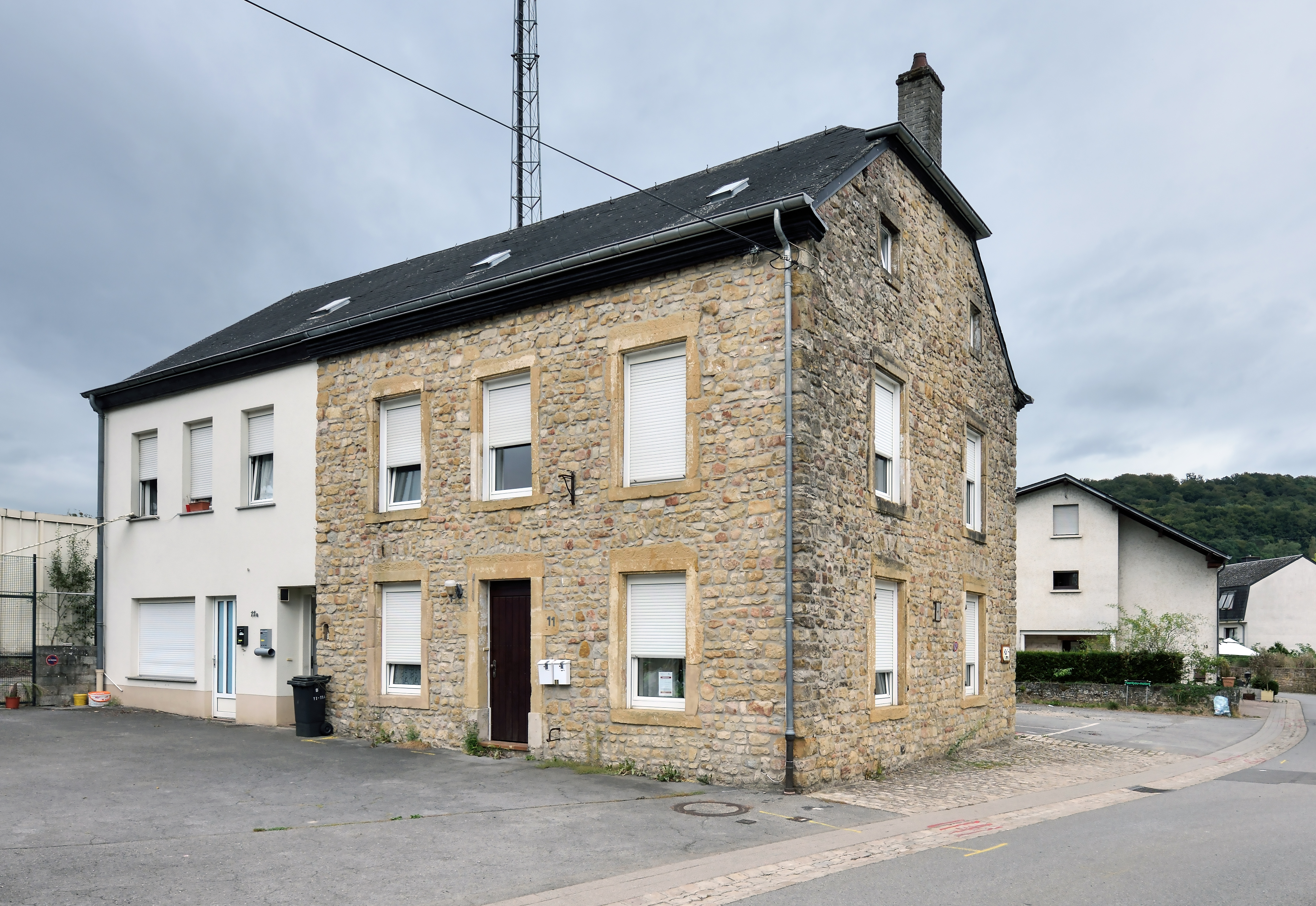 18th century house, the so-called House of the whights, at 11, rue de Bastogne in Beggen, Luxembourg City.